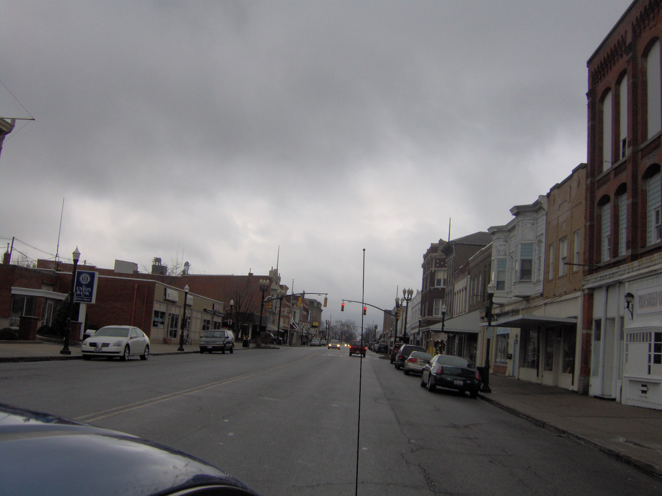 Southbound along Main Street (State Route 66) approaching downtown in the Allen County portion of Delphos, Ohio, United States.